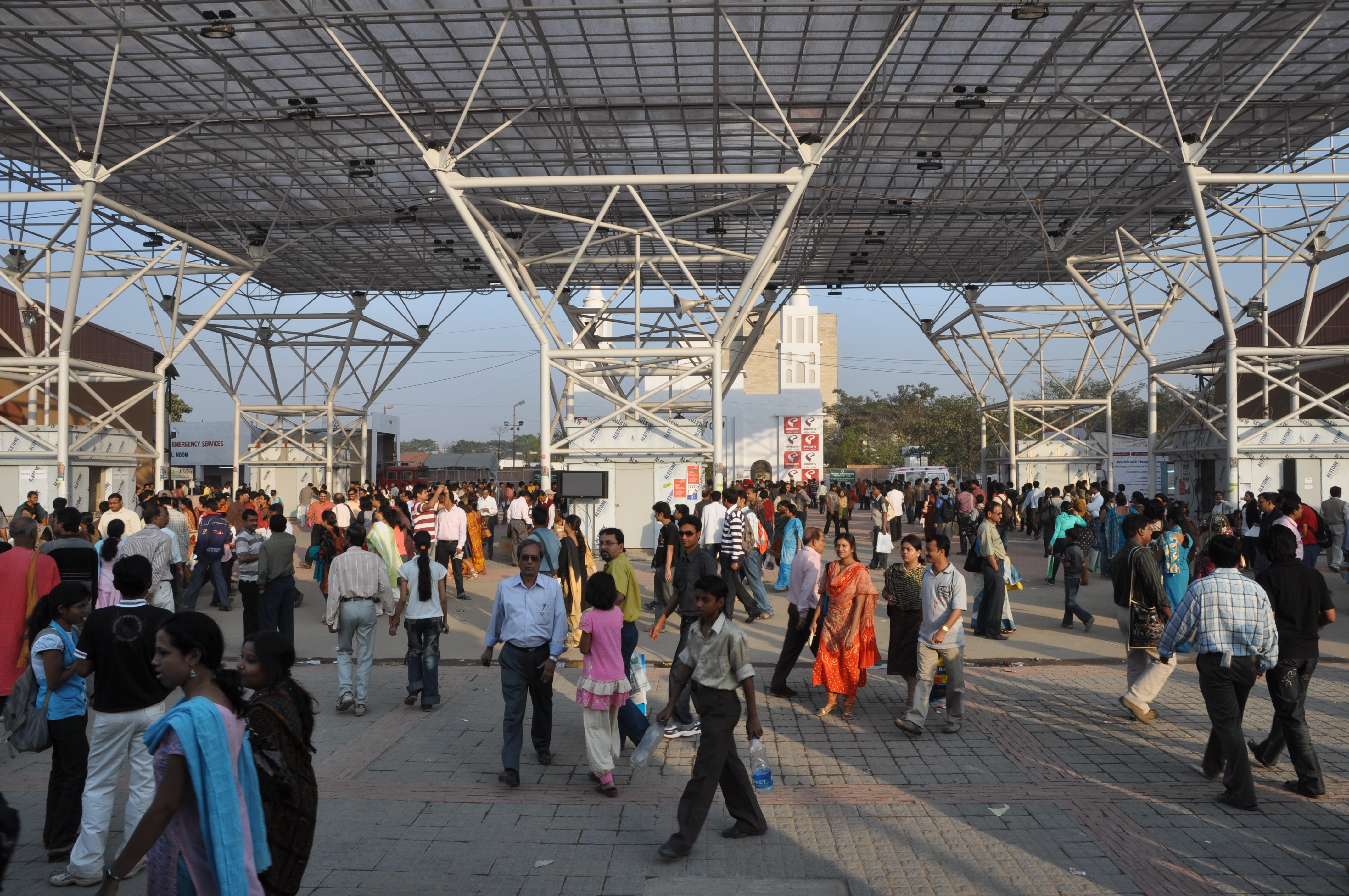 The Kolkata Book Fair (Old name: Calcutta Book Fair in English, and officially Kolkata Boimela or Kolkata Pustakmela in romanized Bengali, is a winter fair in Kolkata. It is a unique book fair in the sense of not being a trade fair - the book fair is primarily for the general public rather than whole-sale distributors. It is the world's largest non-trade book fair, Asia's largest book fair and the most attended book fair in the world. In 2010, the fair took place at ‘Milan Mela’ ground, opposite of ‘Science City’, Kolkata.